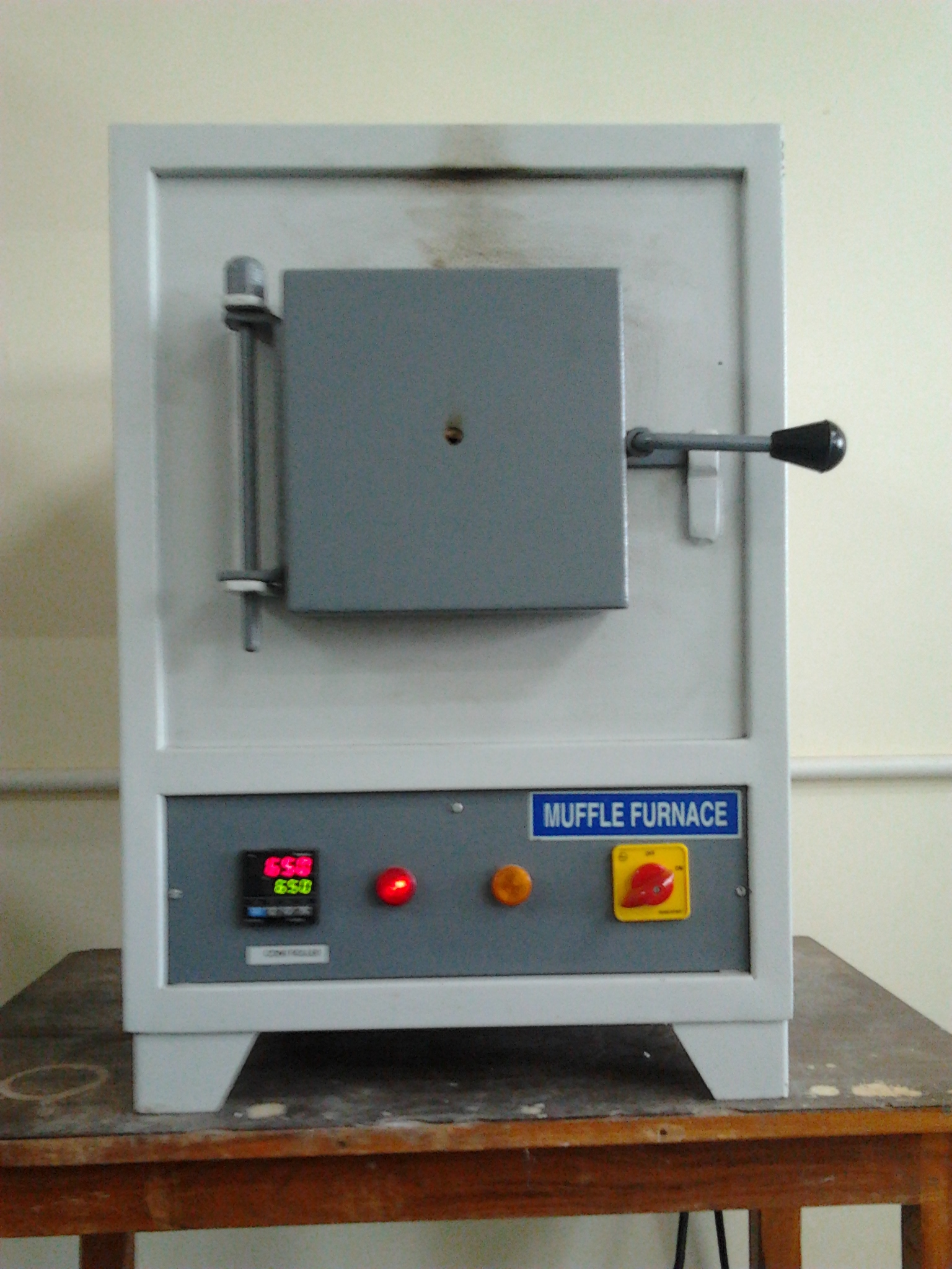 High temperature muffle furnace (1473K).